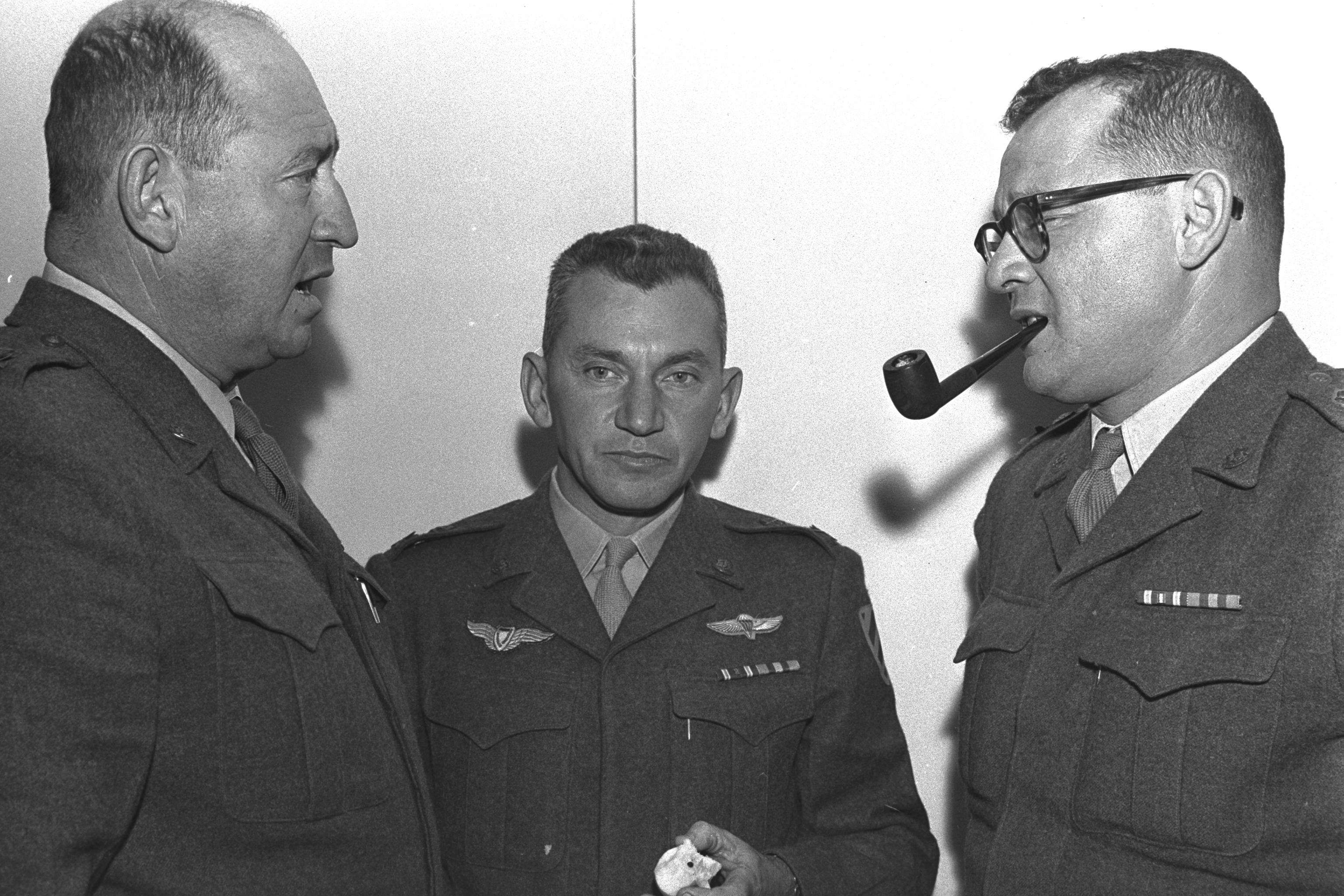 Generals Avraham Yoffe, Haim Bar Lev and the outgoing Chief of Staff Haim Laskov, at the reception after handing over the command of the IDF, at the PM's office in Jerusalem.